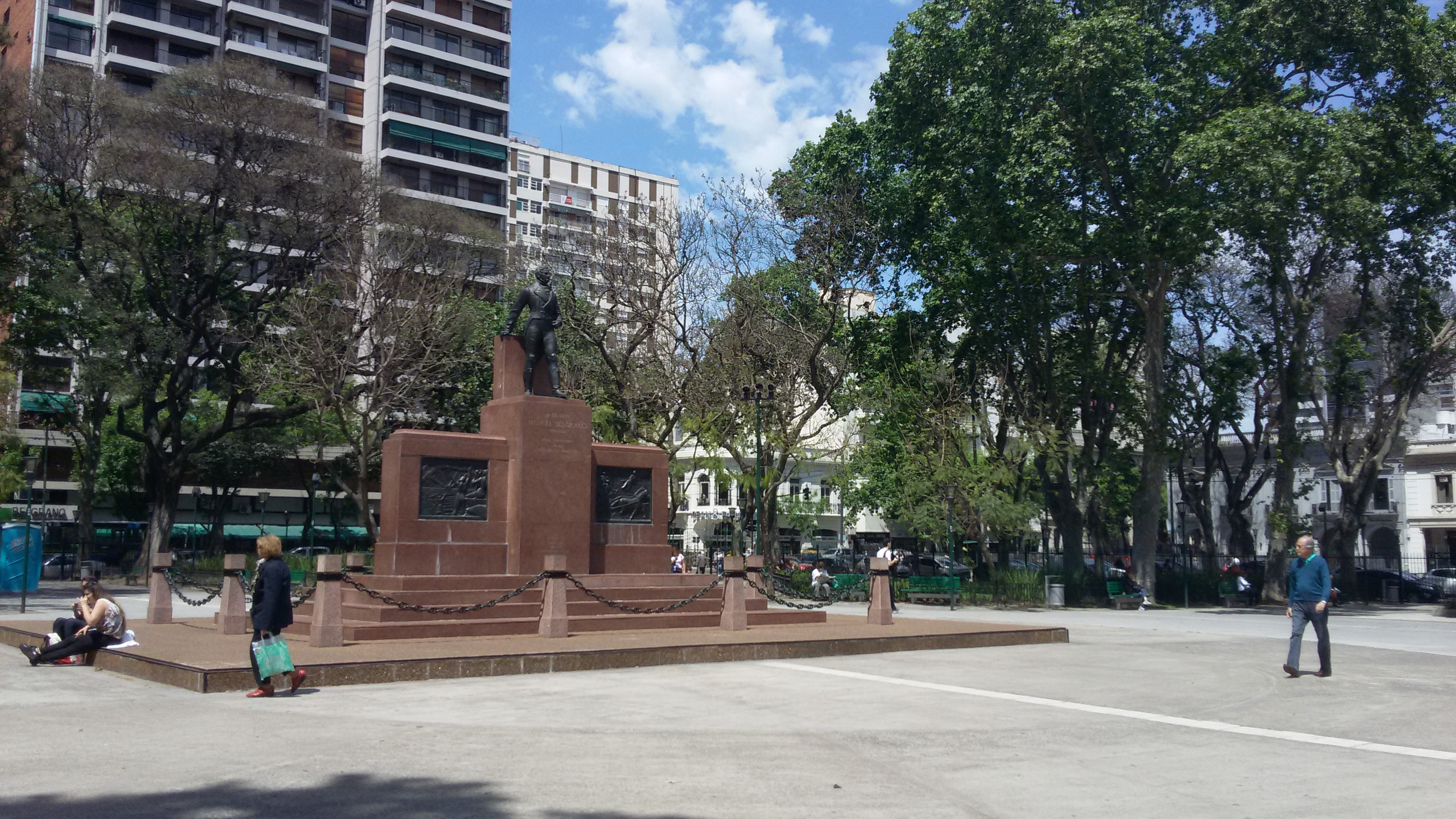 Monument to Manuel Belgrano at Belgrano neighbourhood in Buenos Aires